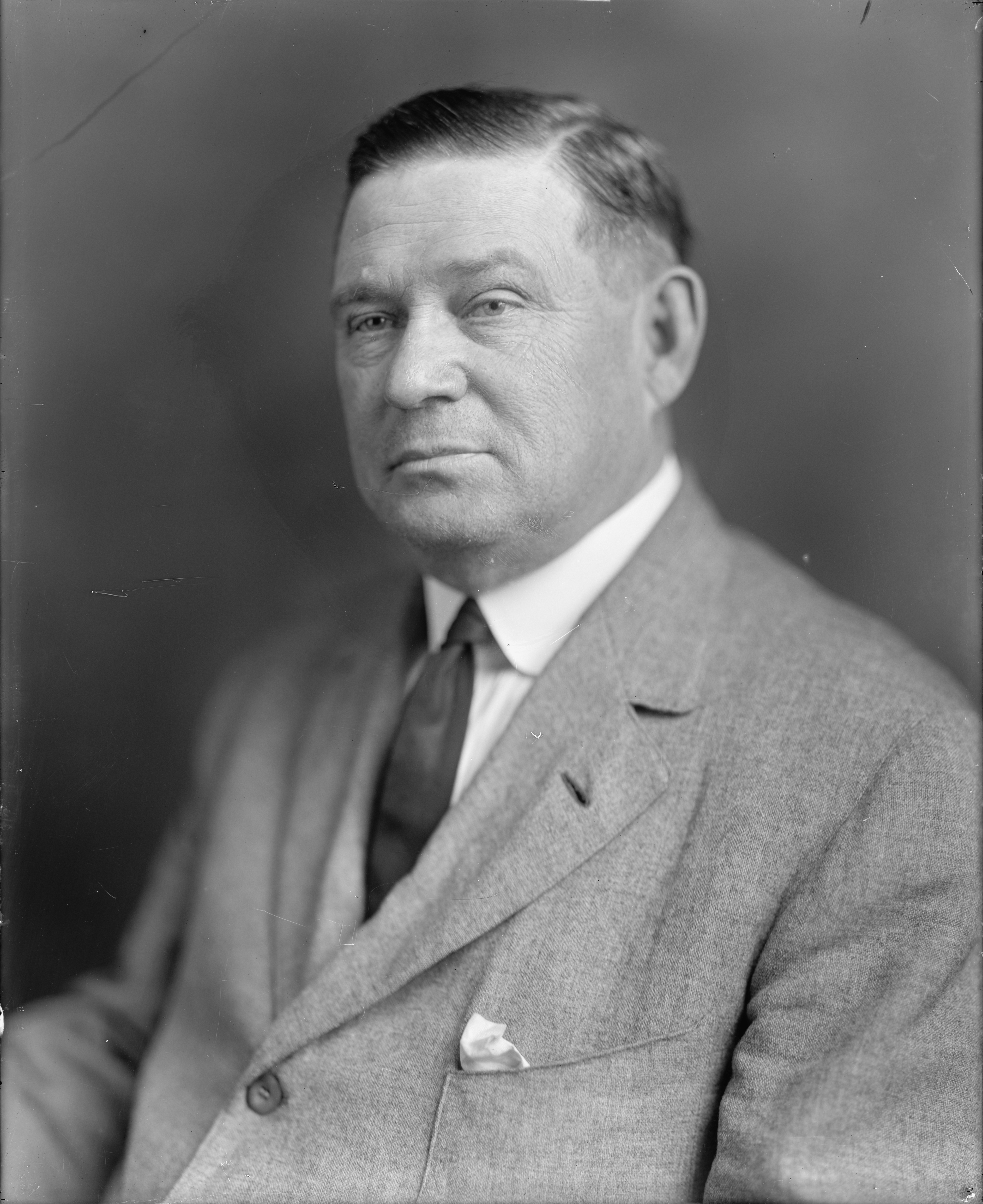 Charles J. Thompson, congressman from Defiance, Ohio.